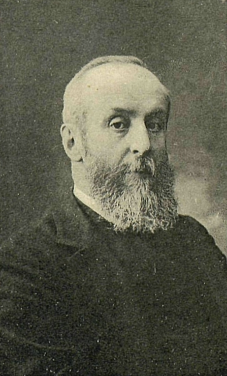 Alexey Alexandrovich Bobrinski